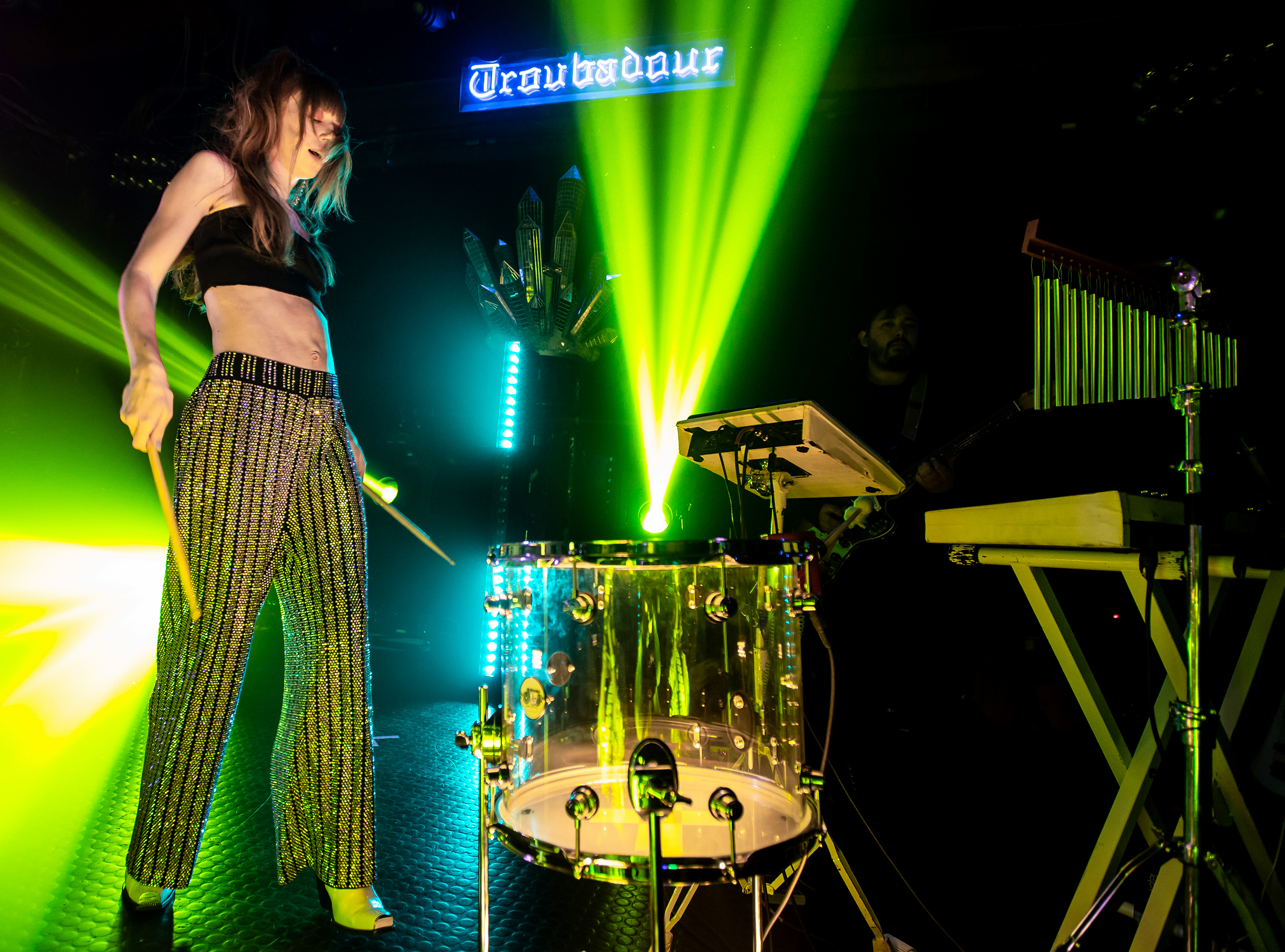 Ella Vos performing live at The Troubadour in Los Angeles, California, on Wednesday, March 28, 2018.